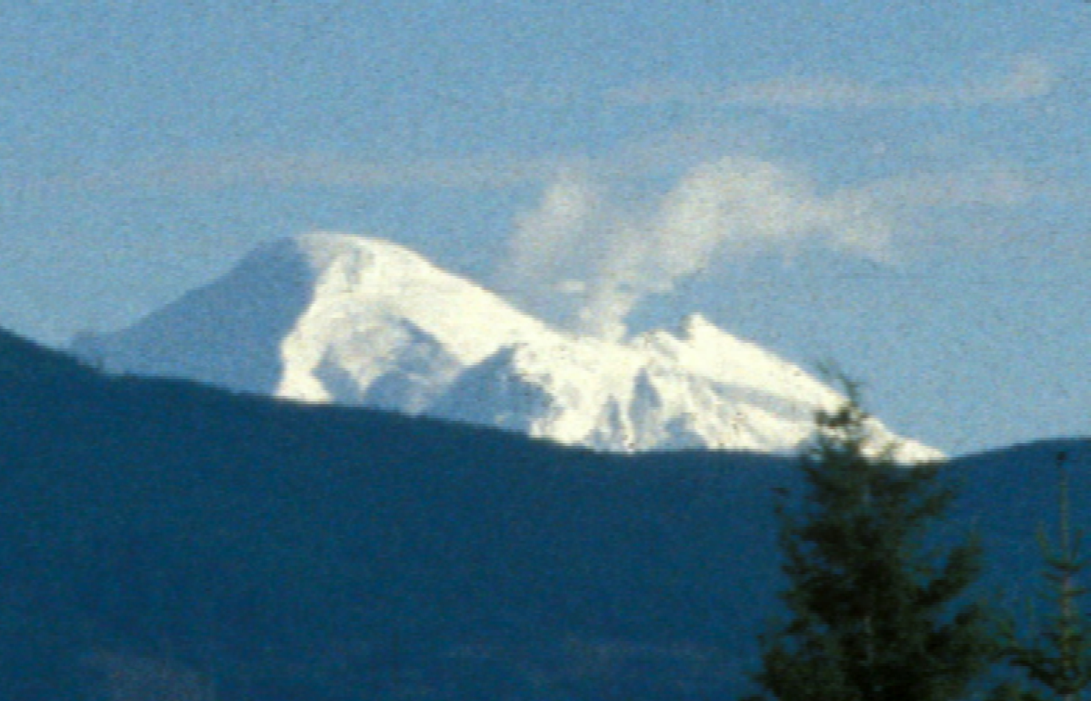 This is a view looking east from Bellingham, WA to Mount Baker in Dec., 1999. A large plume of fumarole gases drifts to the south for several kilometers.